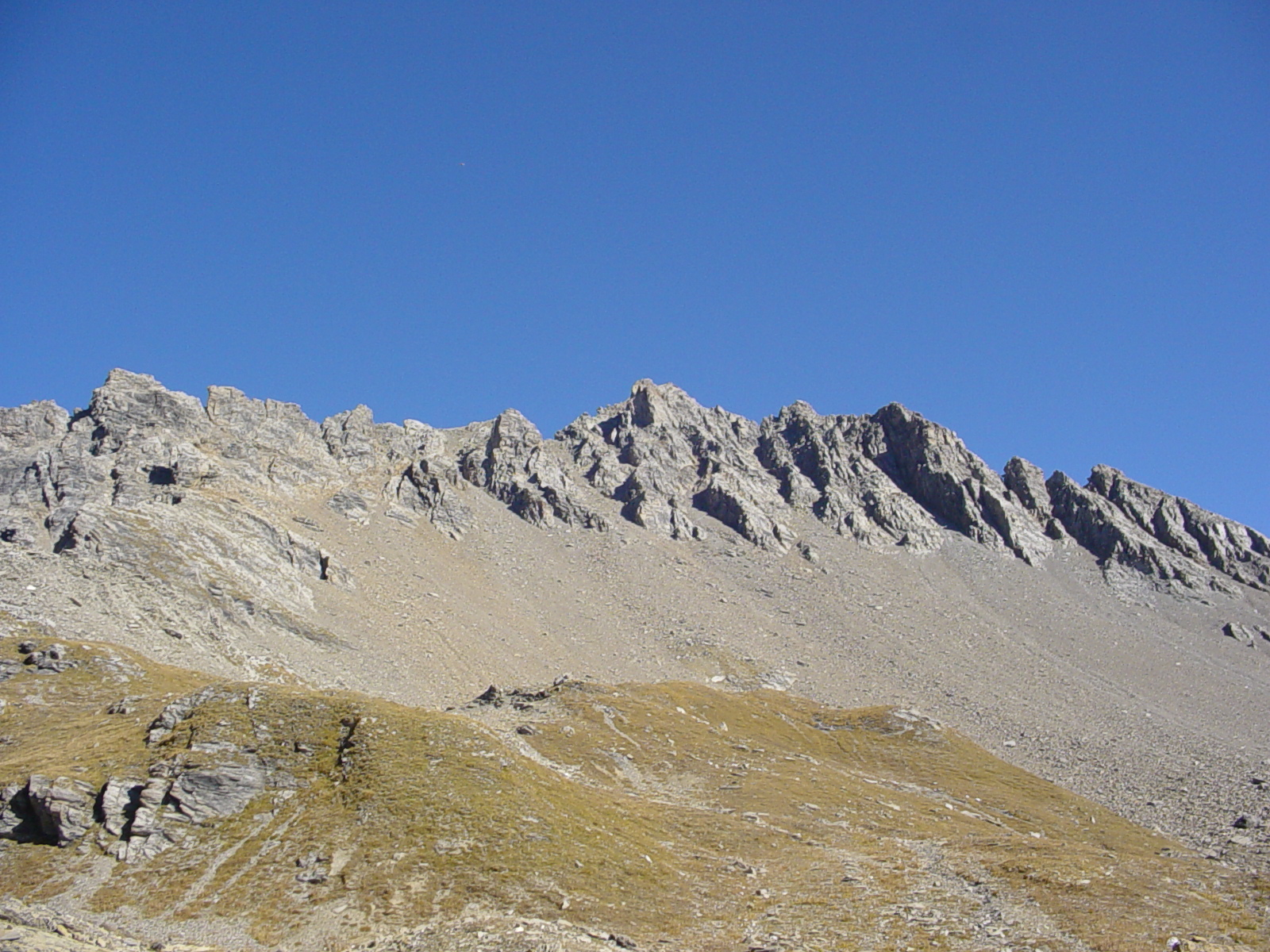 Piz Arblatsch as seen from south, Mulegns, Grison, Switzerland